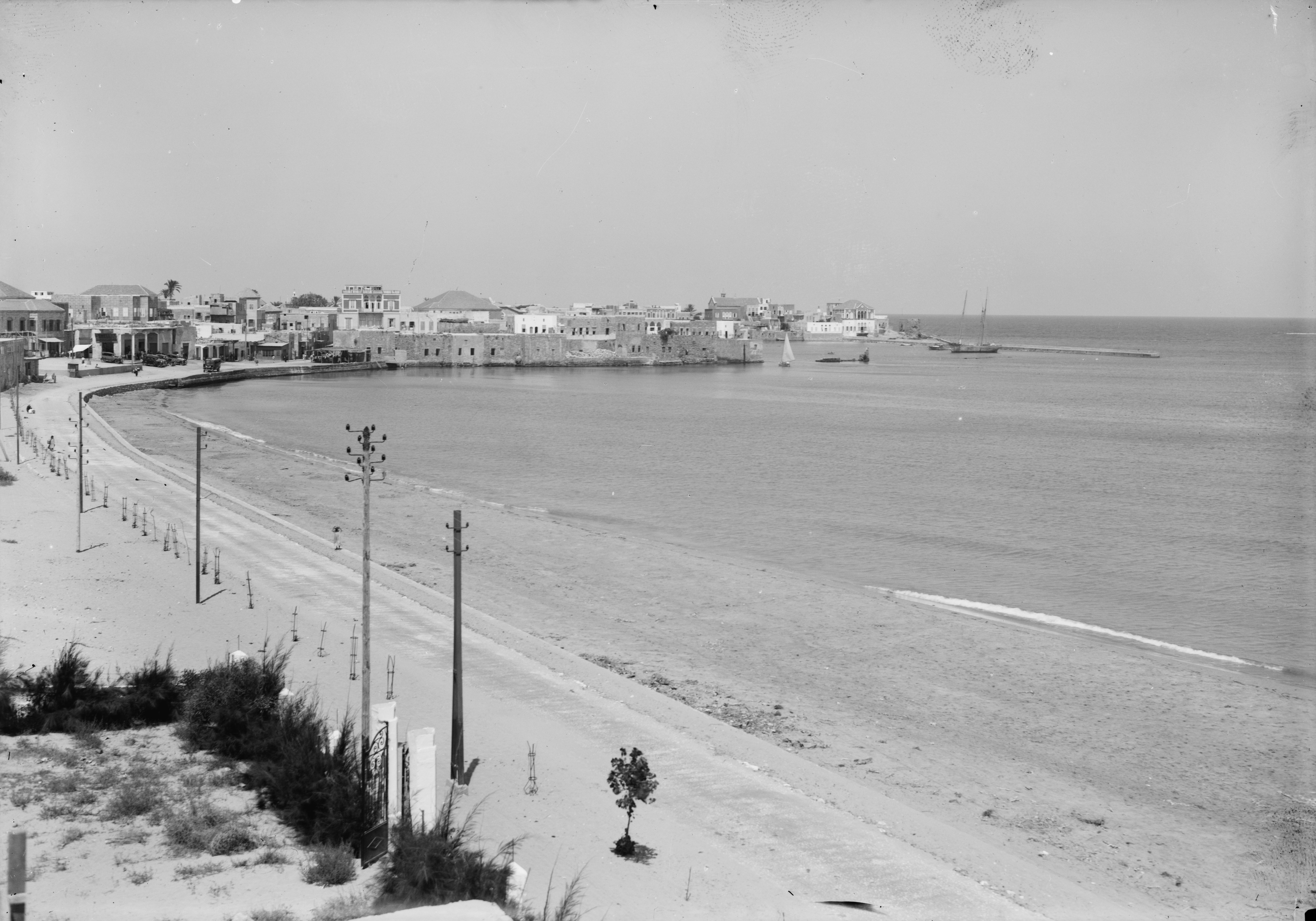 Title: Tyre along the N. shore. Abstract/medium: G. Eric and Edith Matson Photograph Collection Physical description: 1 negative